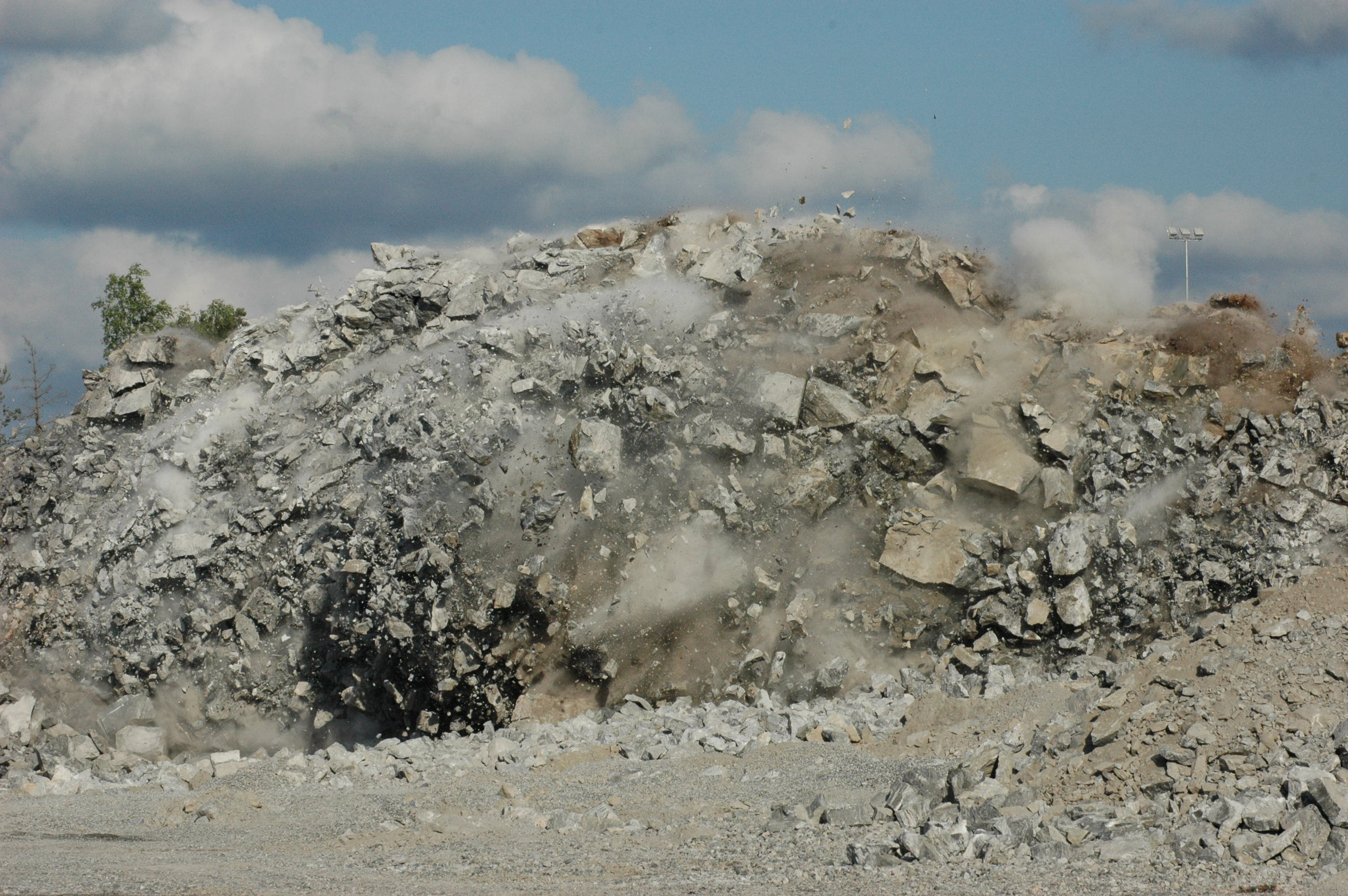 Blasting near highway 4 (E75), Vantaa, Finland, photo 4/6.